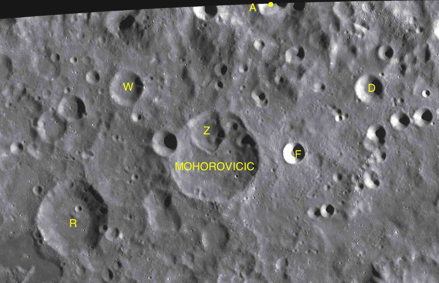 Part of the chart LAC-105 used for the presentation